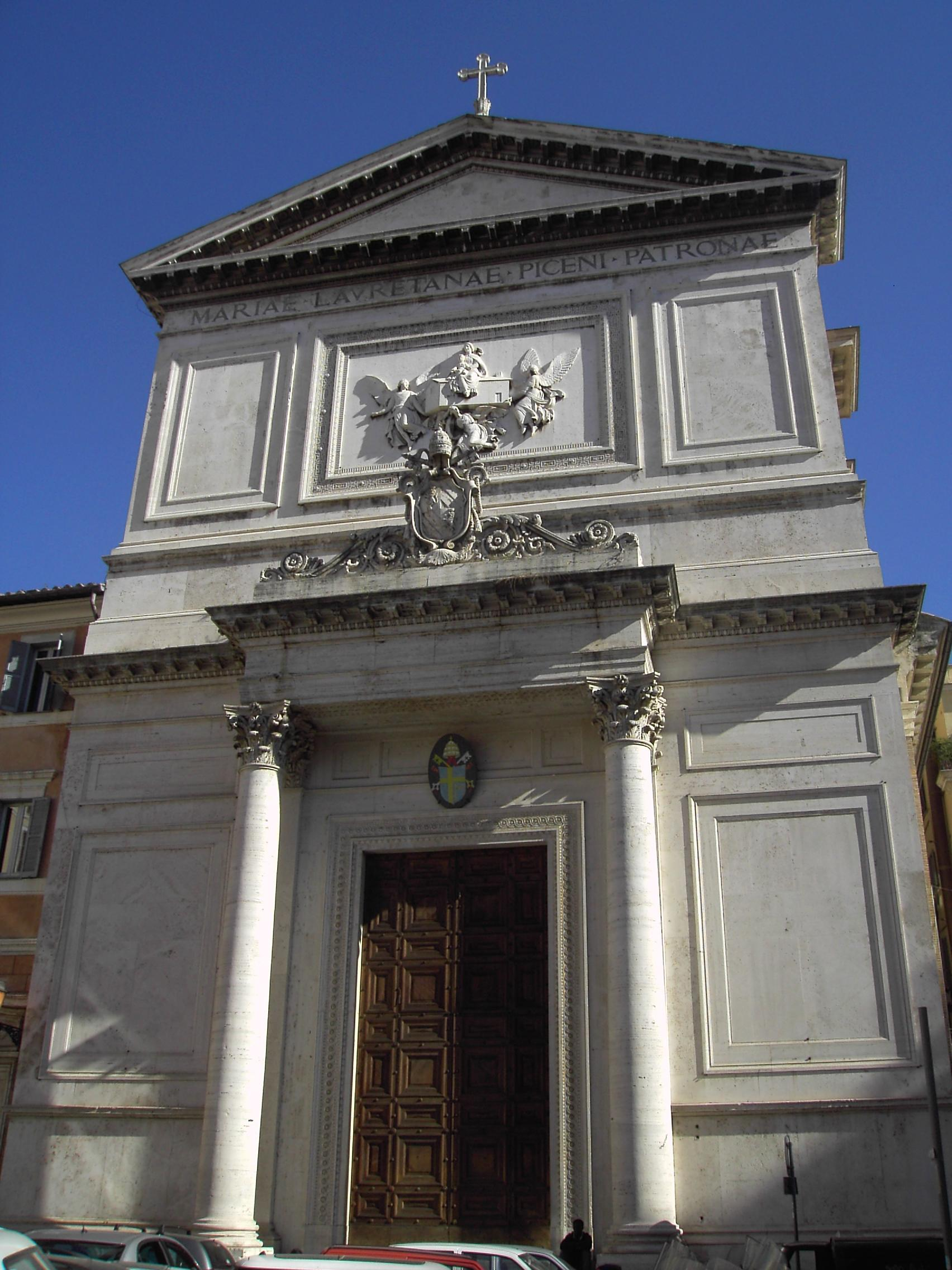 Rome, San Salvatore in Lauro: Facade. The facade is a late work of architecture purist (1857-1862) Camillo Guglielmetti, and has a porch with Corinthian columns surmounted by a bas-relief of Rinaldo Rinaldi (1793-1873) depicting the Holy House of Nazareth who, according to tradition, is carried by the angels to Loreto. On the roof of the Holy House, following the classic iconography, is seated the Virgin and Child, and you refer the inscription on the frieze below the pediment: "Mariae Lauretanae Picenes Patronae" or "A Lady of Loreto patron of Piceno" .